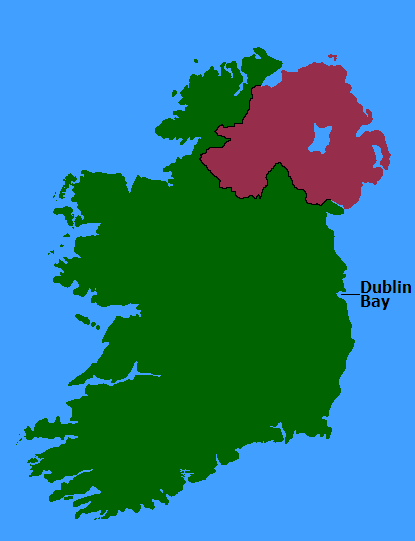 Map created with MSFT Paint. WikiDon 01:02, 10 August 2005 (UTC)